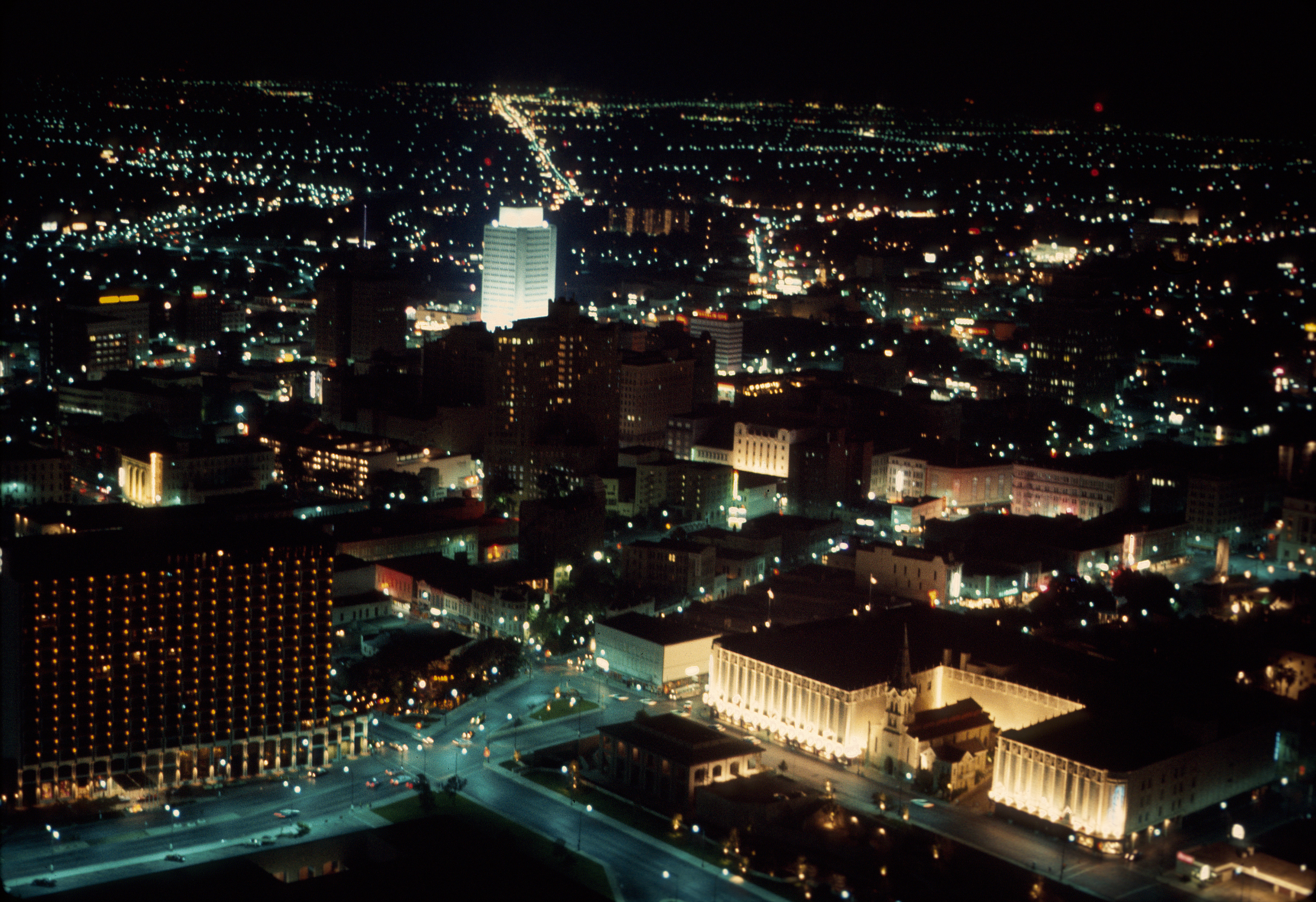 San Antonio at Night from the Tower of the Americas